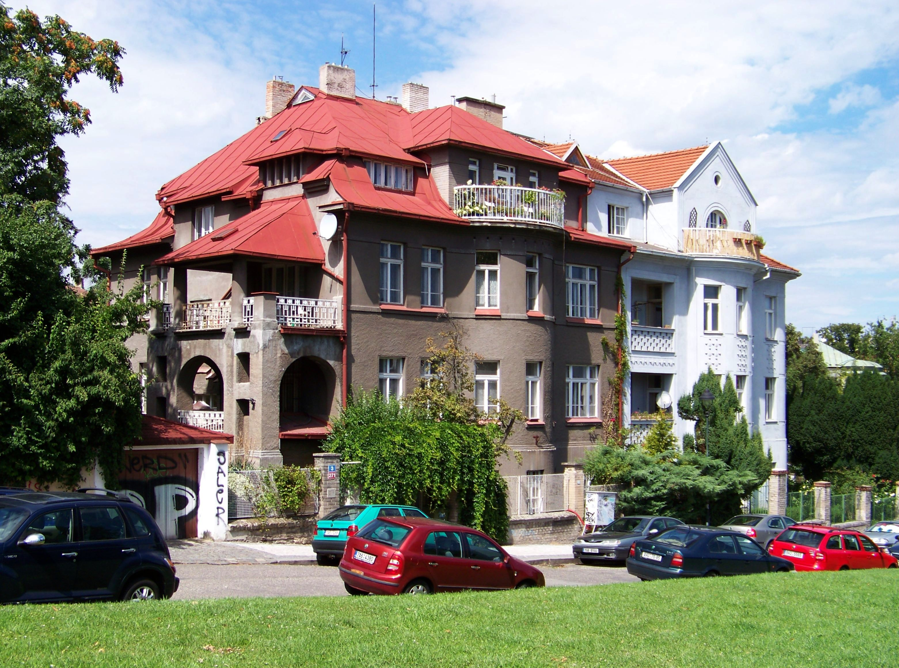 Prague-Hradčany, the Czech Republic. U letohrádku královny Anny 271/3, 267/5.